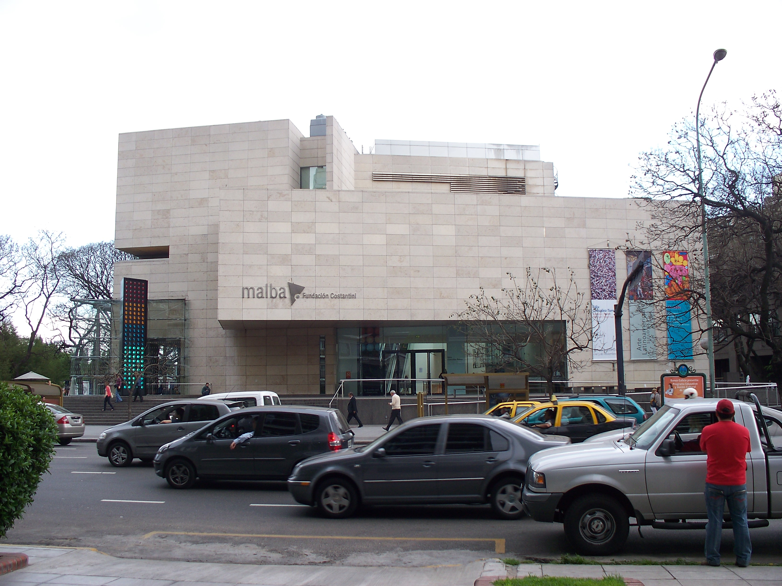 Description MALBA, Buenos Aires Date23 October 2008SourceOwn workAuthorIridescent MALBA, Buenos Aires